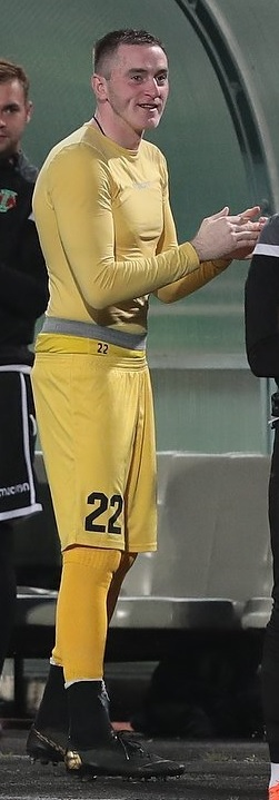 Mykola Tsygan as a reserve goalkeeper of FC Torpedo Moscow during a game against FC Avangard Kursk.